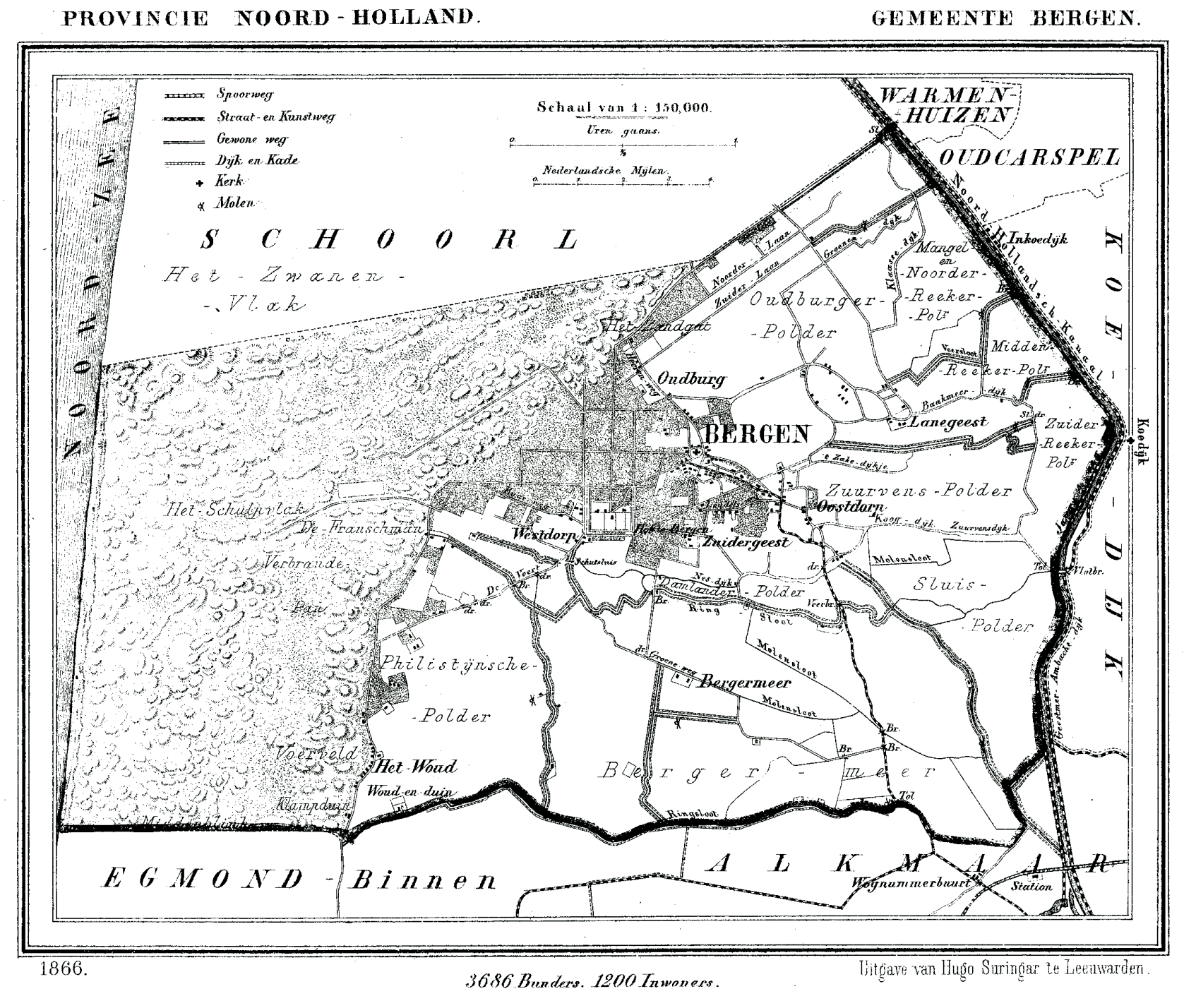 Historic map of Bergen, North Holland, the Netherlands